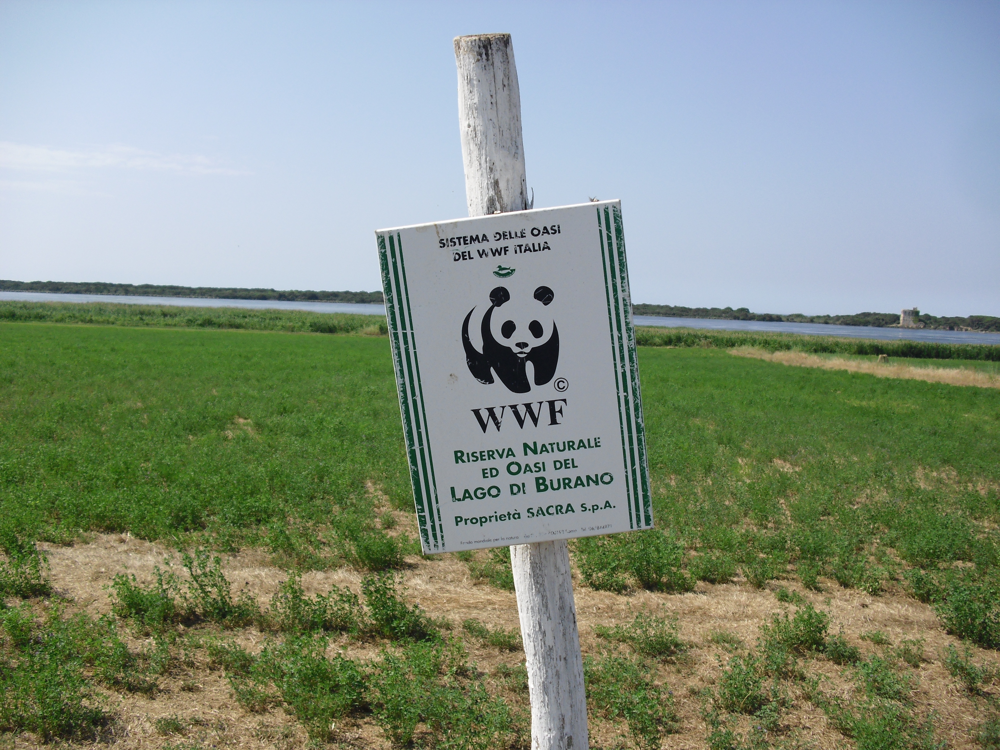 This is a photo of a monument which is part of cultural heritage of Italy. The authorisation for taking photos of this object was provided by the World Wide Fund for Nature Italy.